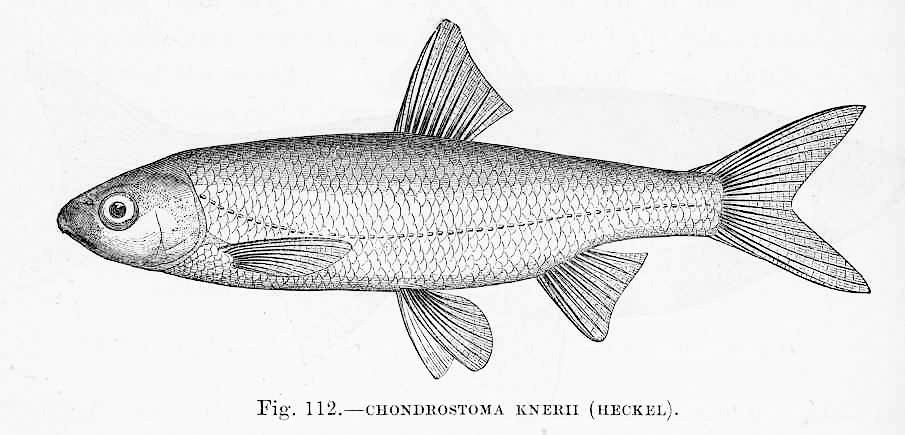 Chondrostoma knerii (Heckel) Subject: Chondrostoma Tag: Fish